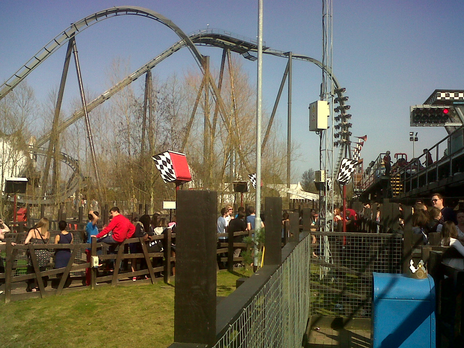 view from stealth of the swarm